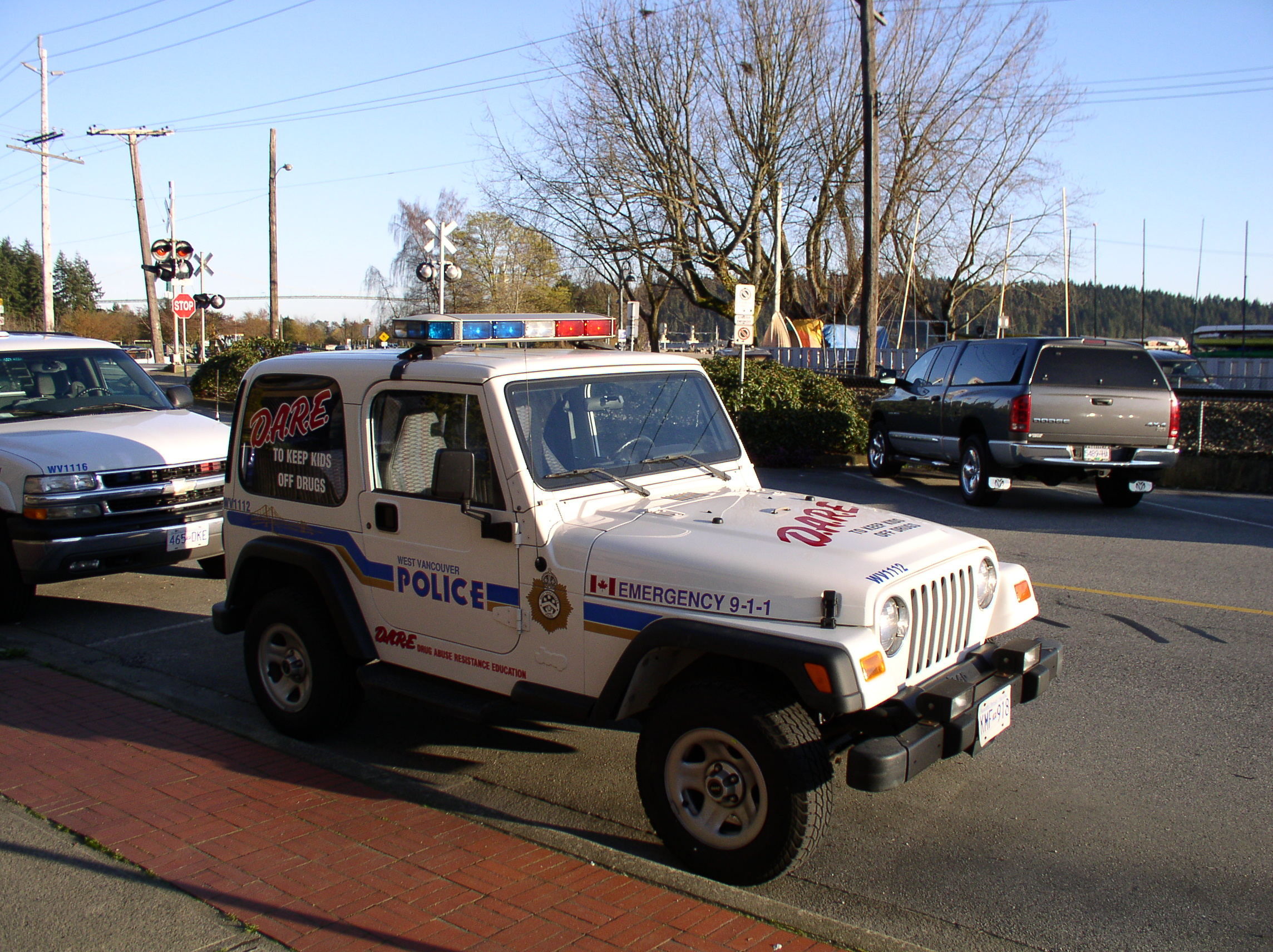 A West Vancouver Police vehicle (used as part of the D.A.R.E. drug awareness program for children)